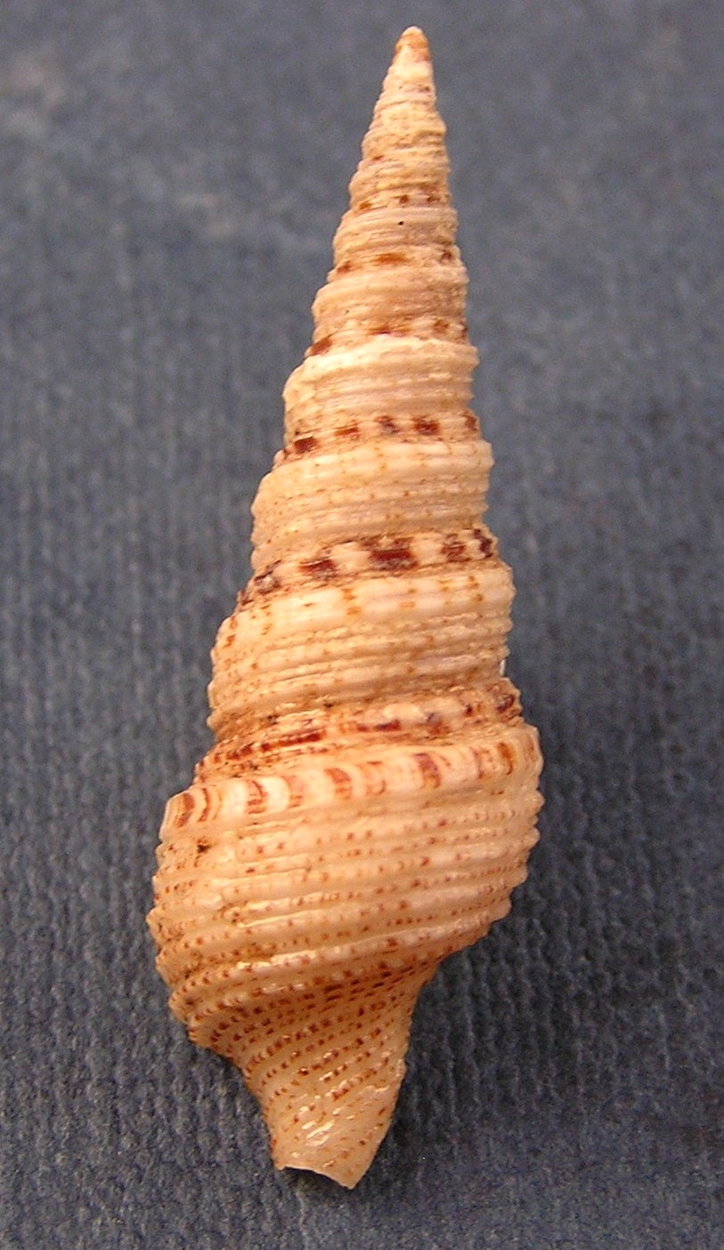 Lophiotoma olangoensis Olivera, 2002, a turrid from the family Turridae; Philippines